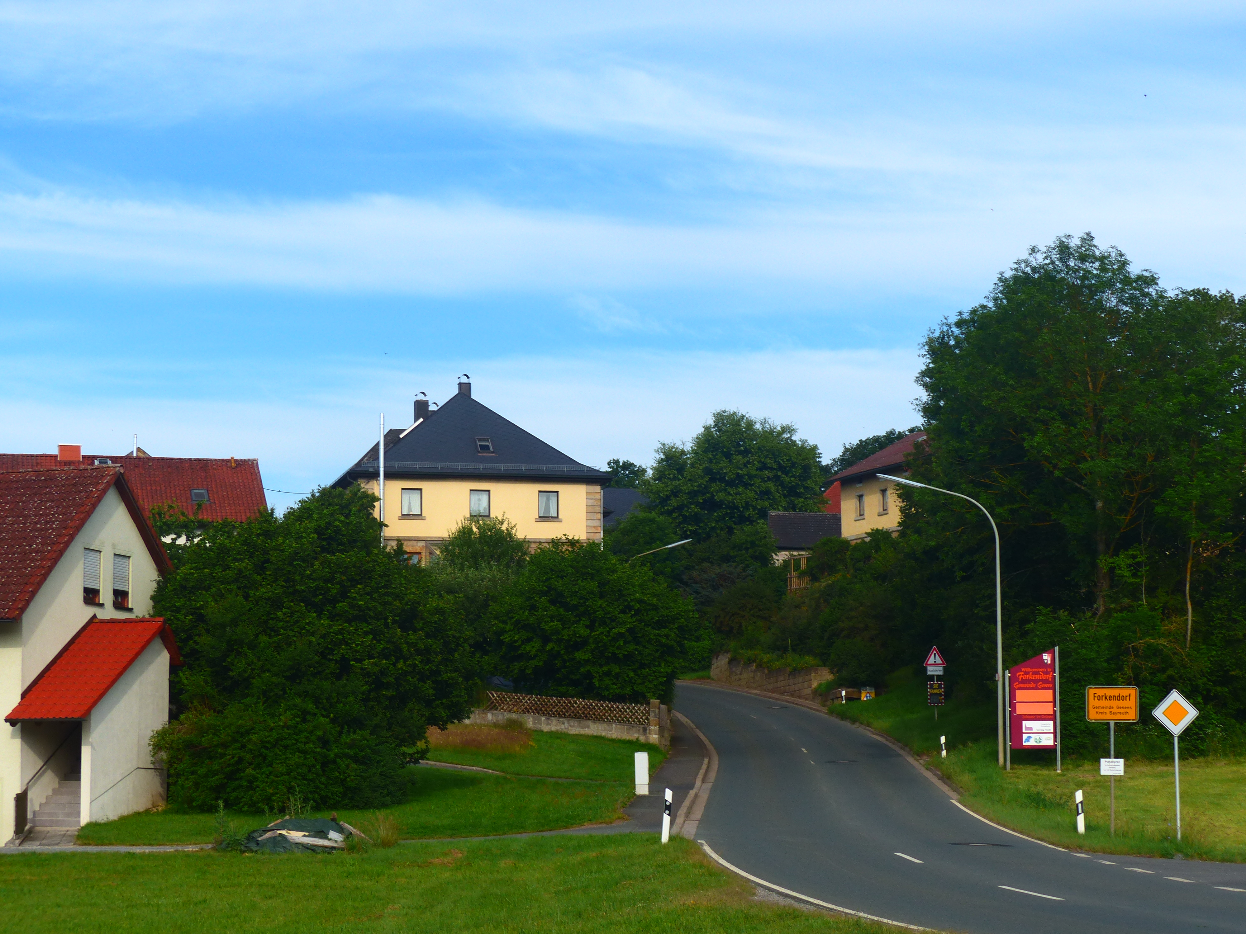 The village Forkendorf, a district of the municipality of Gesees.